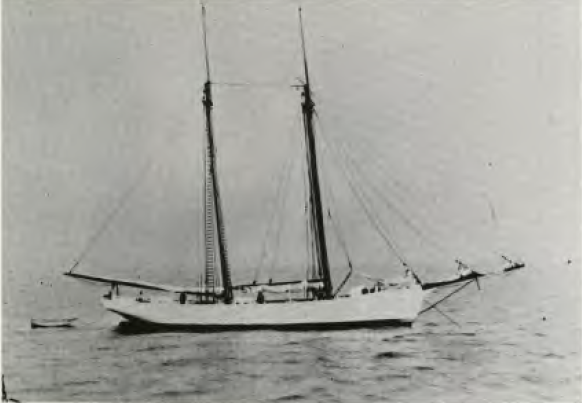 The Adventist schooner Pitcairn before being upgraded. The berths, galley, and cabin were all below deck